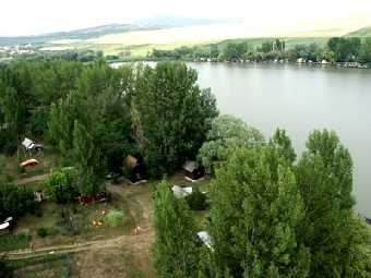 Lakeside camping, Szűcsi, Hungary